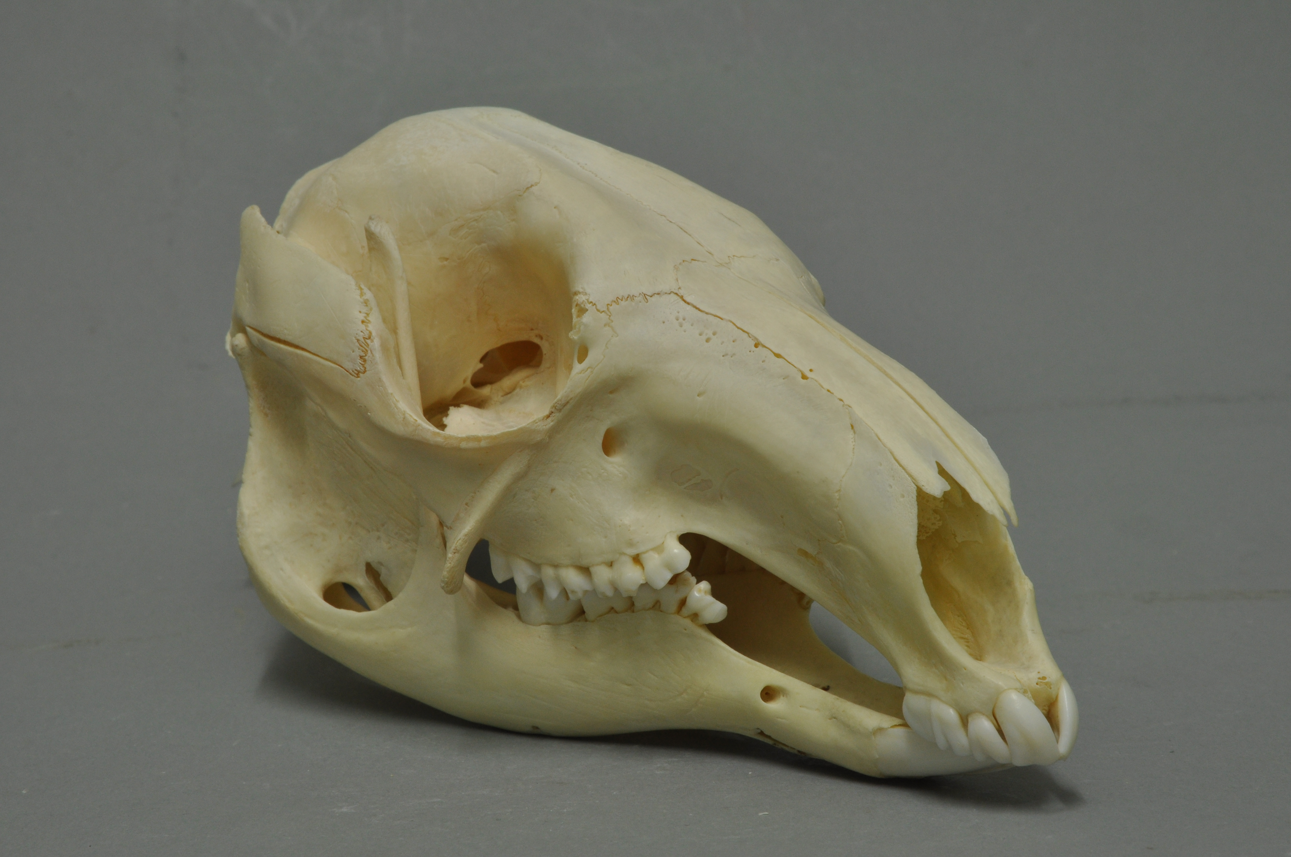 Red kangaroo Macropus rufus , skull, Coll. Museum Wiesbaden